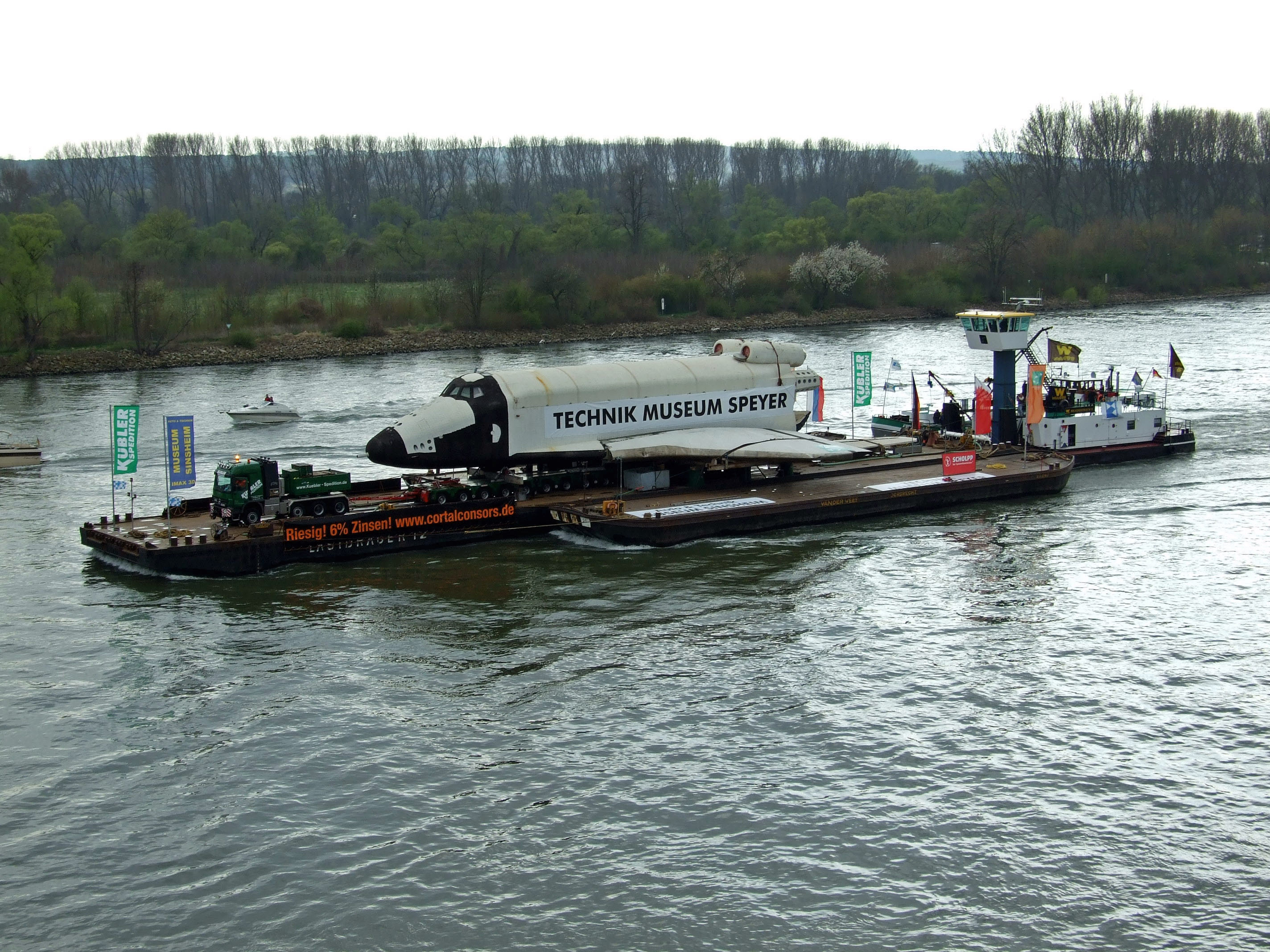 OK-GLI at rhine-river, ship-transport to the Technikmuseum Speyer